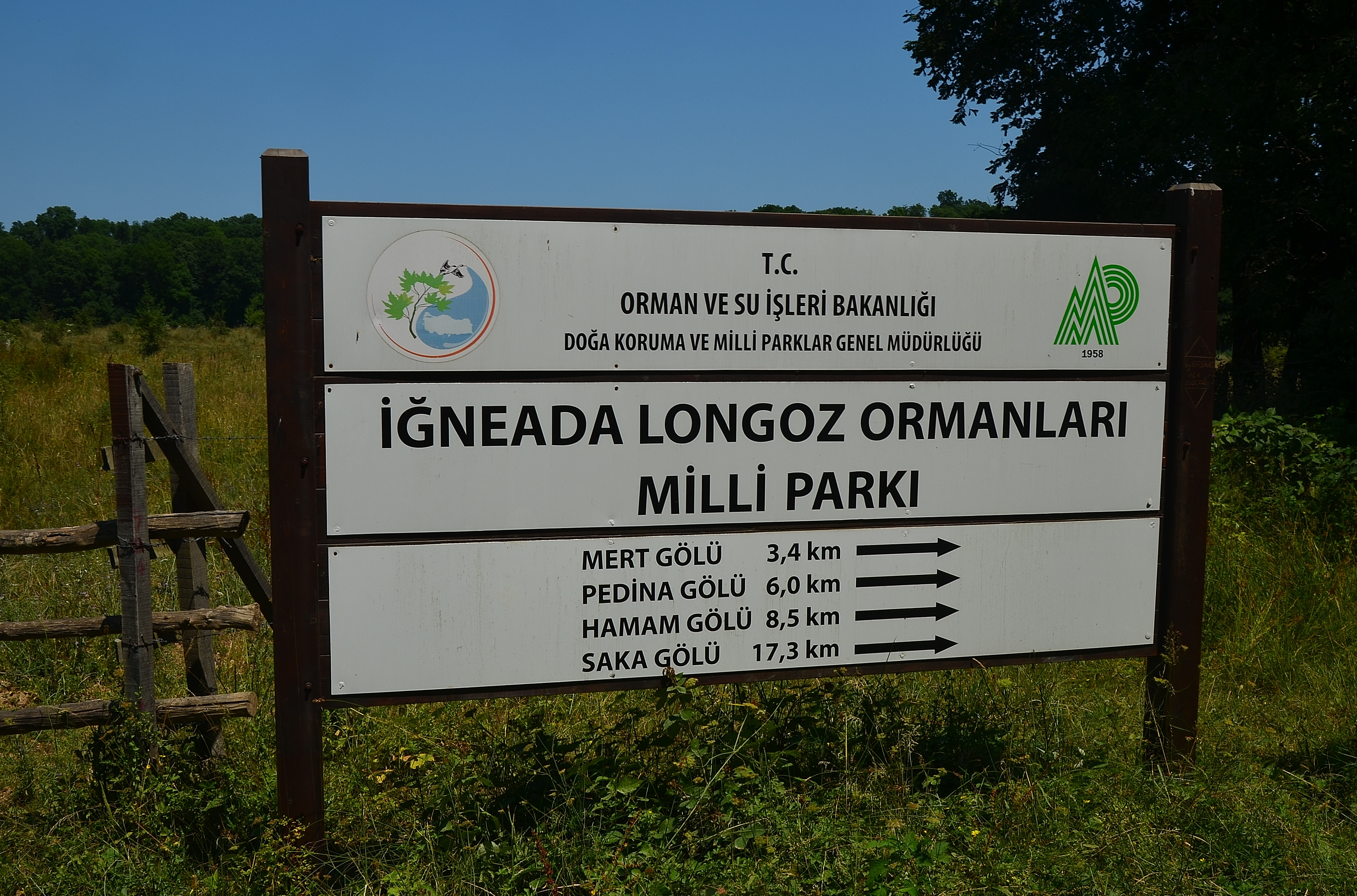 Road sign for the lakes in the İğneada Floodplain Forests National Park in İğneada, Kırklareli Province, Turkey